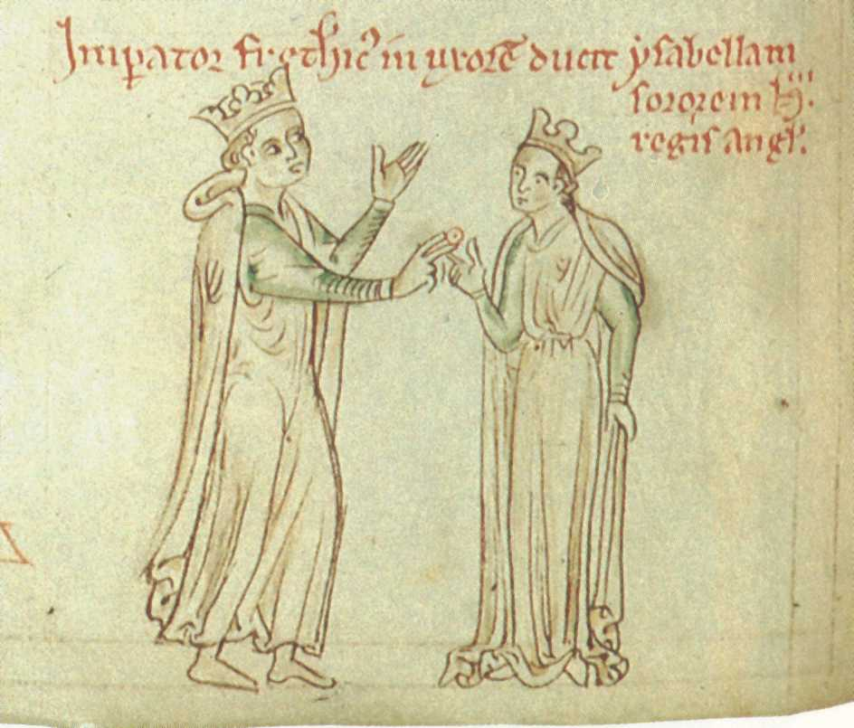 Illustration from London, British Library, MS Royal 14 C VII, folio 123, marriage of Frederick II, Holy Roman Emperor and Isabella Plantagenet.